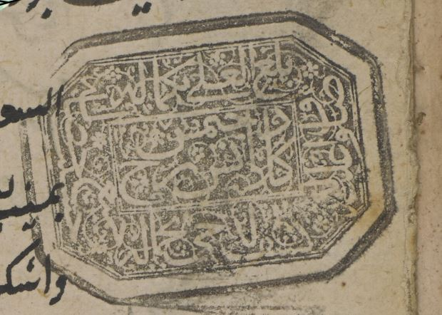 Seal of Claudius James Rich